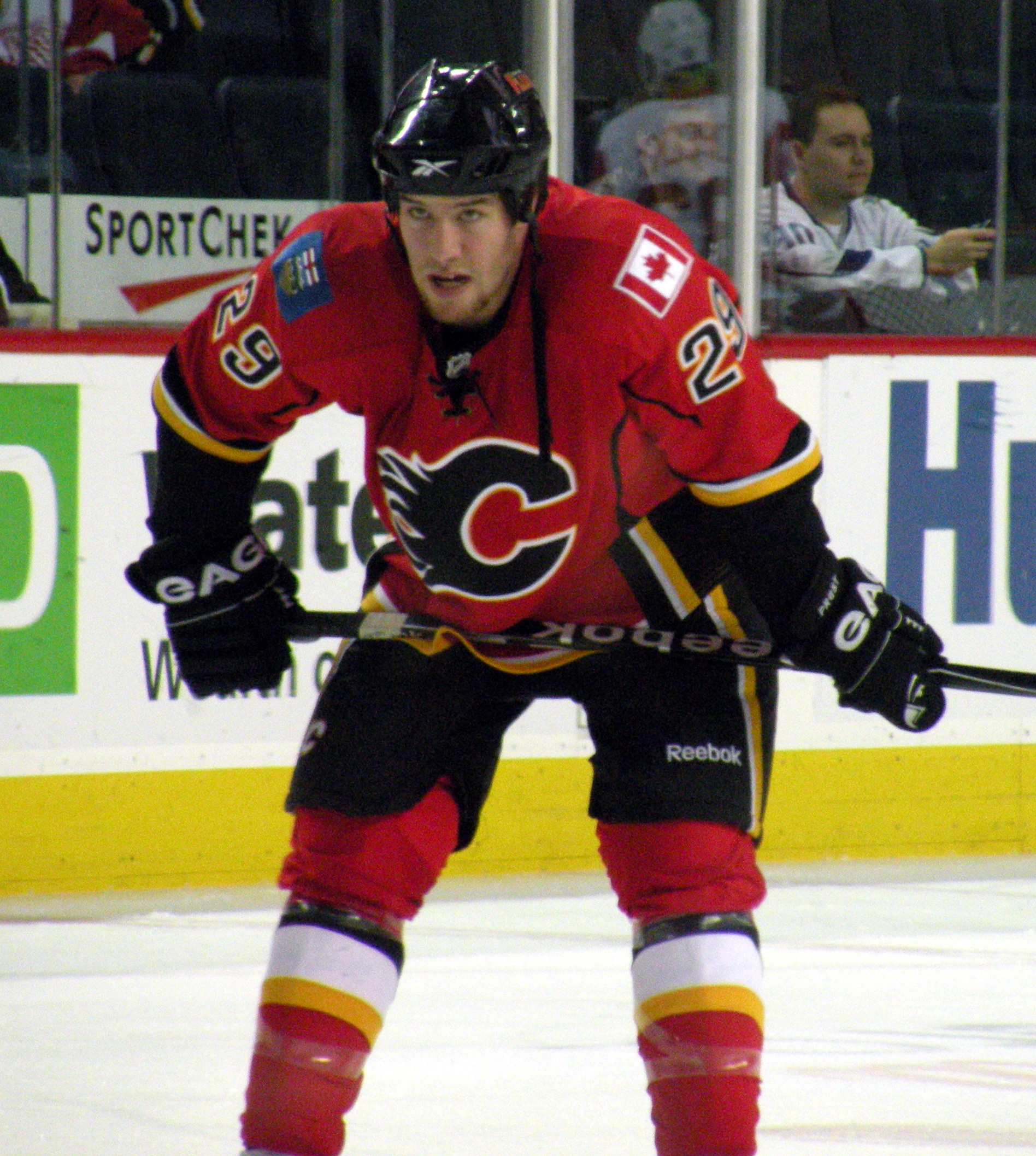 Forward Brandon Prust warming up prior to a game between the Calgary Flames and Detroit Red Wings at Calgary, November 22, 2008.